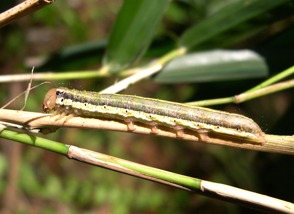 Mythimna separata (Walker, 1865) (Hadeninae: Noctuidae: Lepidoptera) about 40 mm long (the adult moths have a wingspan of 35-50 mm) Loc: Yokohama, Honshu, Japan. May 15 2006. Distribution: China, Japan, Taiwan, South-east Asia, India, Eastern Australia, New Zealand, and some Pacific Islands. Caterpillar Host Plants: pasture plants, cereals, maize, buckwheat, sweet potato and cotton plants.